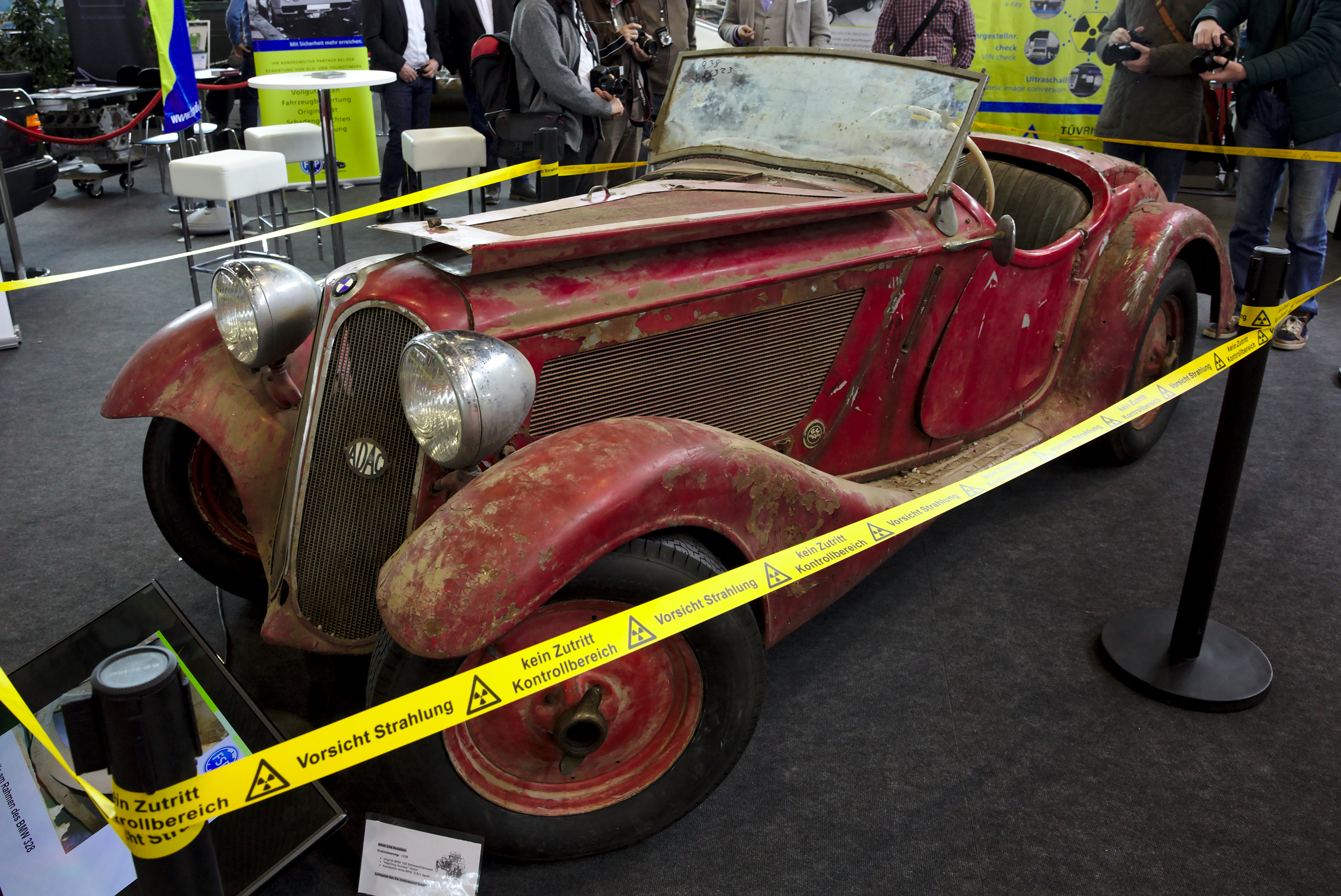 BMW 328 Roadster at Retro Classics 2018